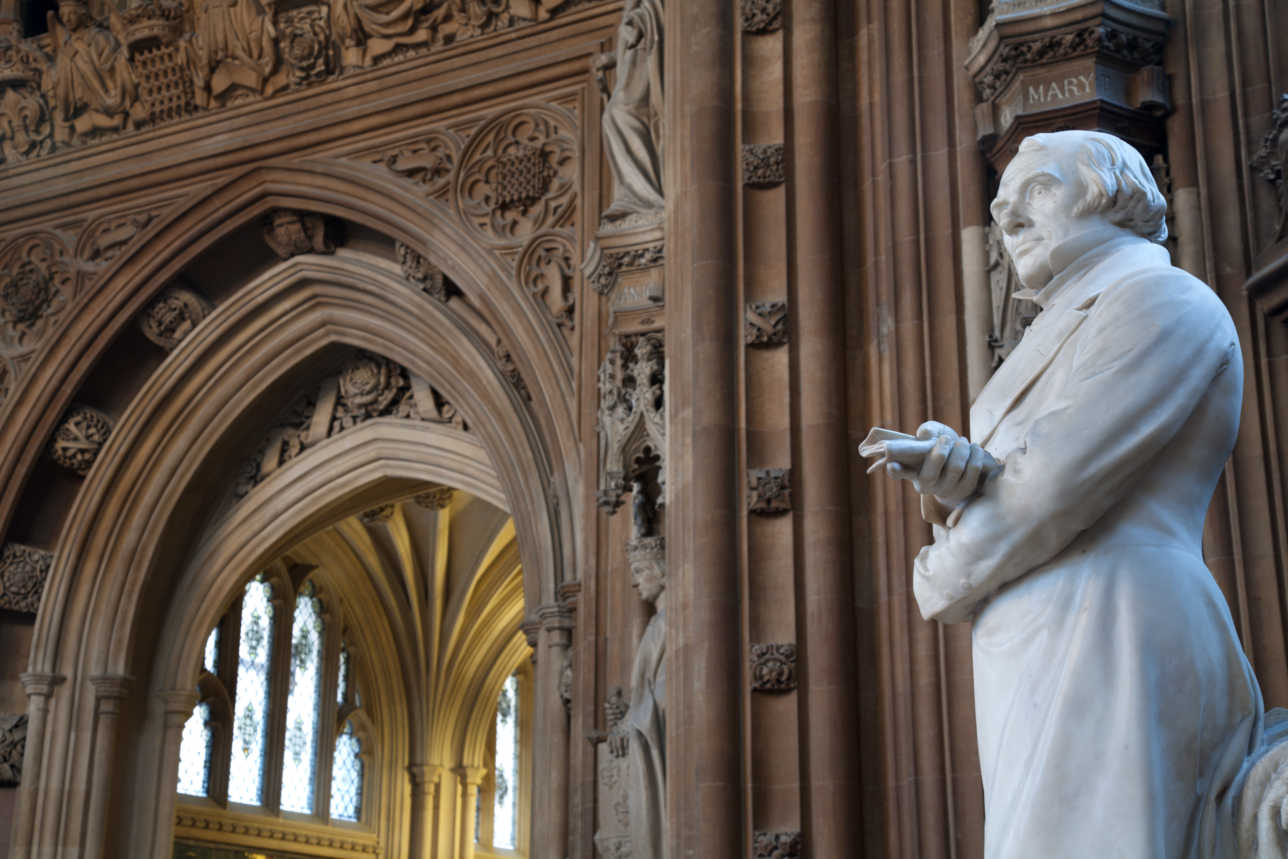 John Earl Russell statue. House of Lords & House of Commons Lobby. The Parliament. London. UK